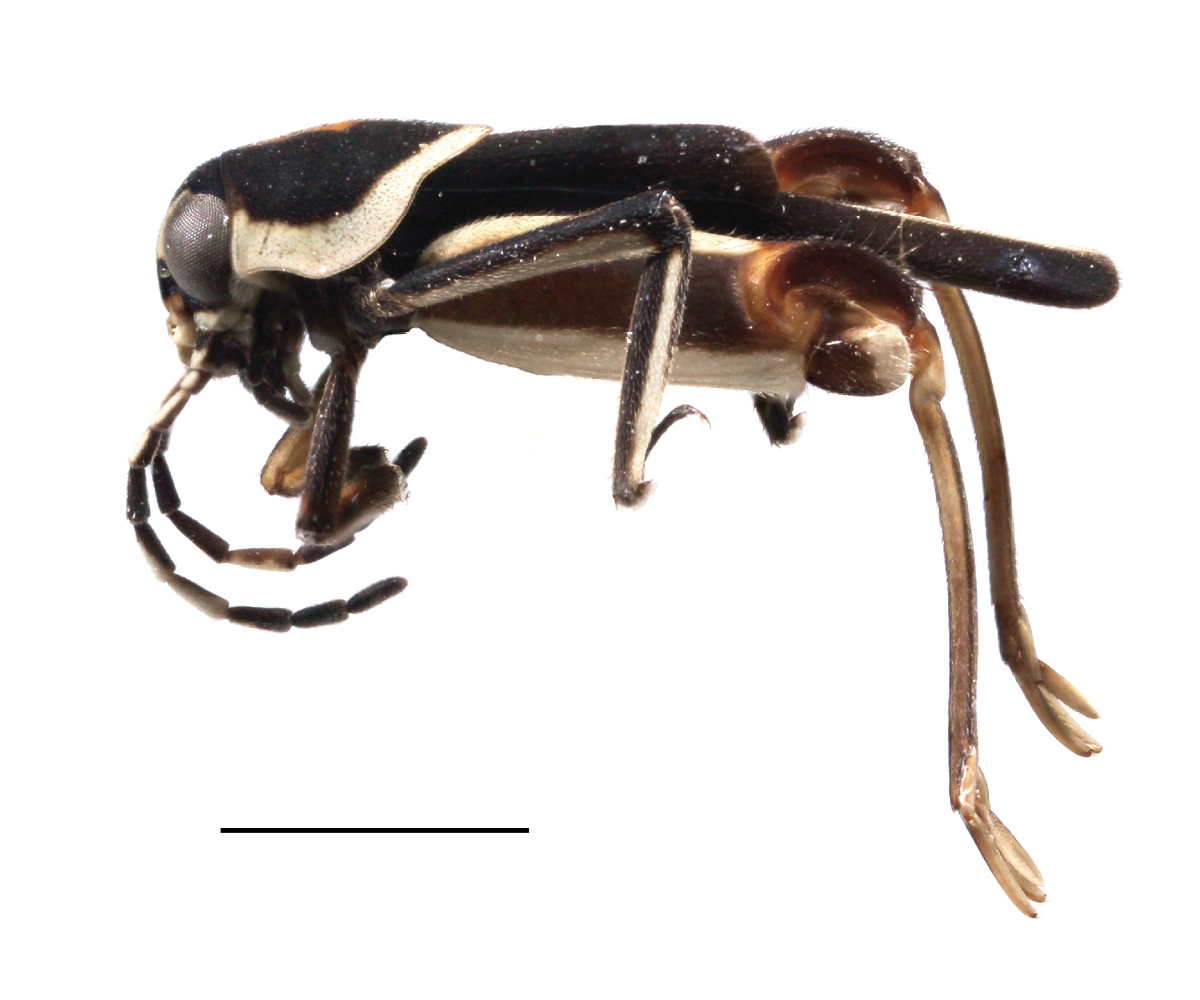 Holotype male specimen of Ripipteryx mopana. Lateral habitus, scale bar 2.0 mm. The specimen was captured in Belize.